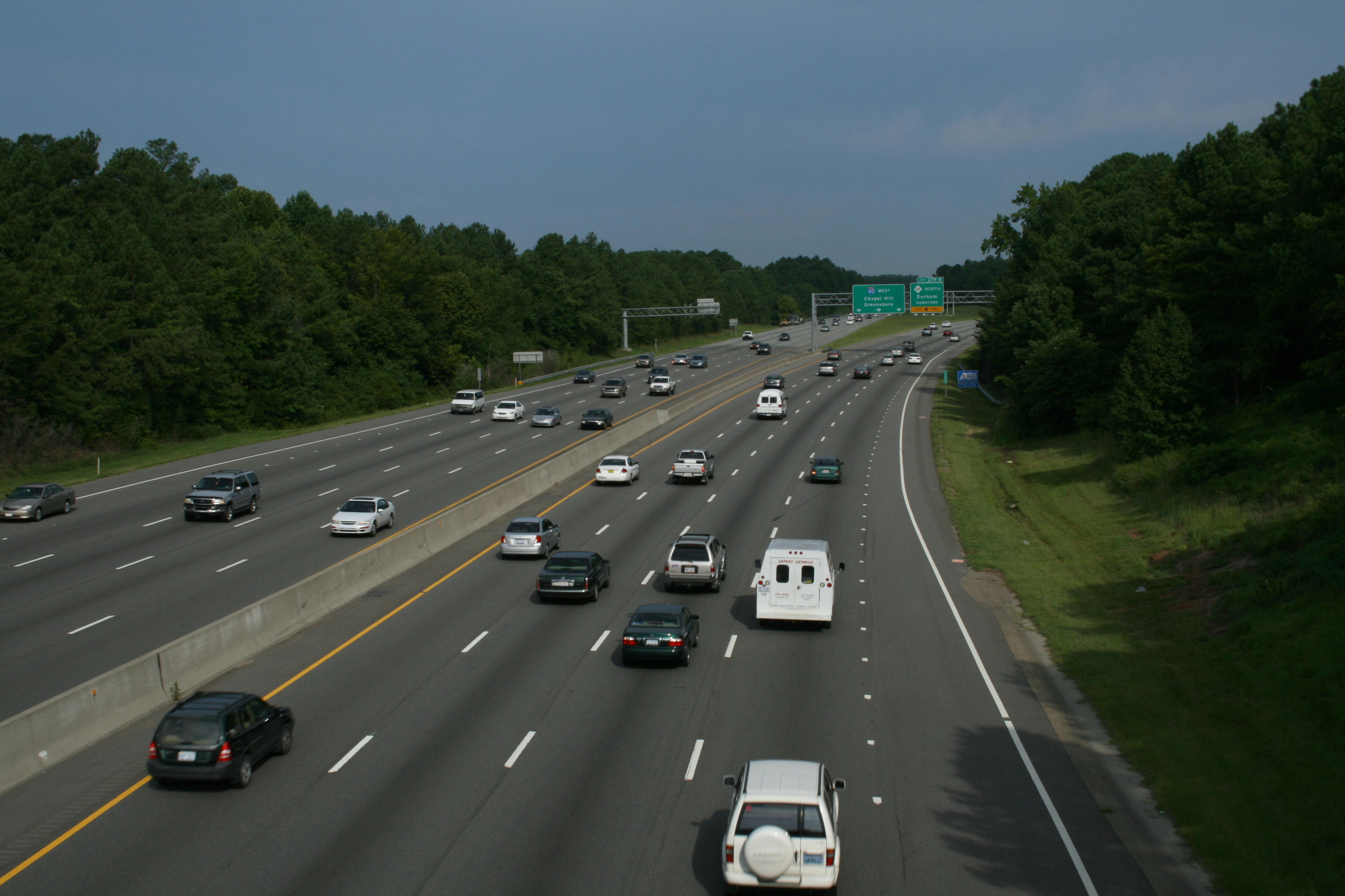 Interstate 40 seen from the Davis Dr overpass in Research Triangle Park, North Carolina.